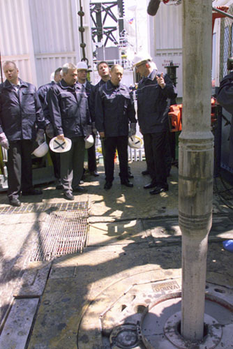 ASTRAKHAN. Visit to a floating drilling rig, Astra, on the Caspian shelf.